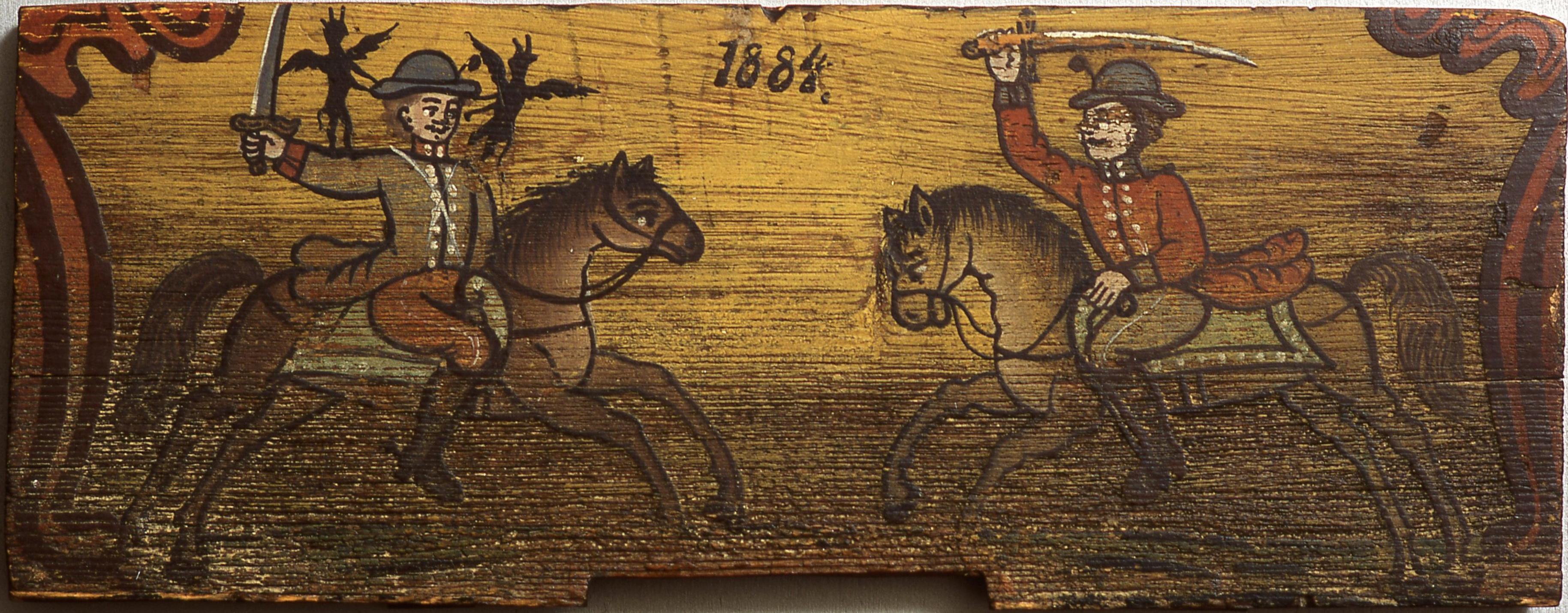 Decorated beehive's panel from the year 1884 with the motive of combat between demonic Pegam (probably based on tradition of slavic pagan god Veles) and slovenian hero Lambergar (based on slavic pagan god Kresnik). Apicultural Museum, Radovljica, Slovenia.